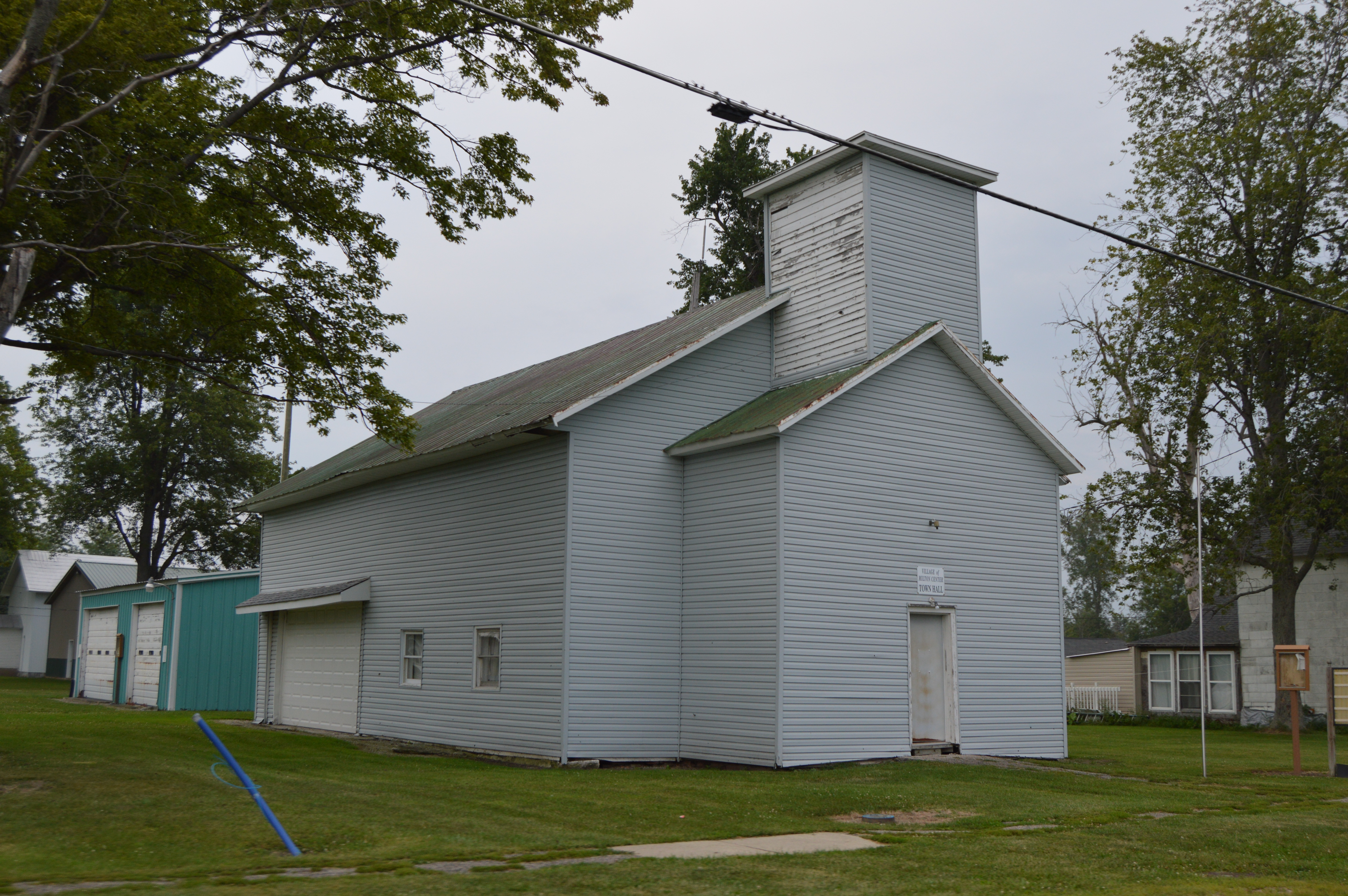 Front and western side of the Milton Center village hall, located at the junction of Church and Defiance Streets in Milton Center, Ohio, United States.